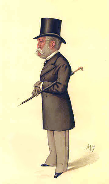 Caricature of Sir Charles Lennox Wyke KCB GCMG (1815-1897). Caption read "the Baron".